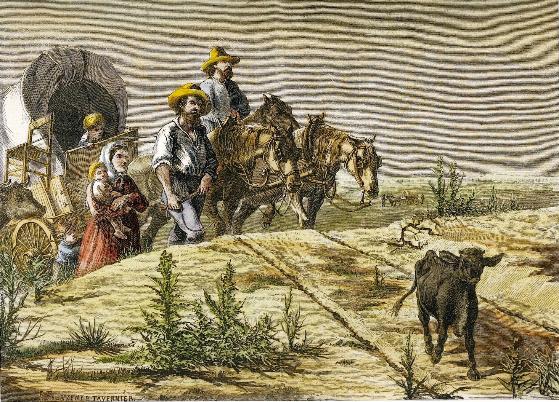 Sketches from the Far West‒Arkansas Pilgrims by Paul Frenzeny and Jules Tavernier, April 4, 1874, wood engraving with later hand coloring for Harper's Weekly, 6 7/8 x 9 in., private collection